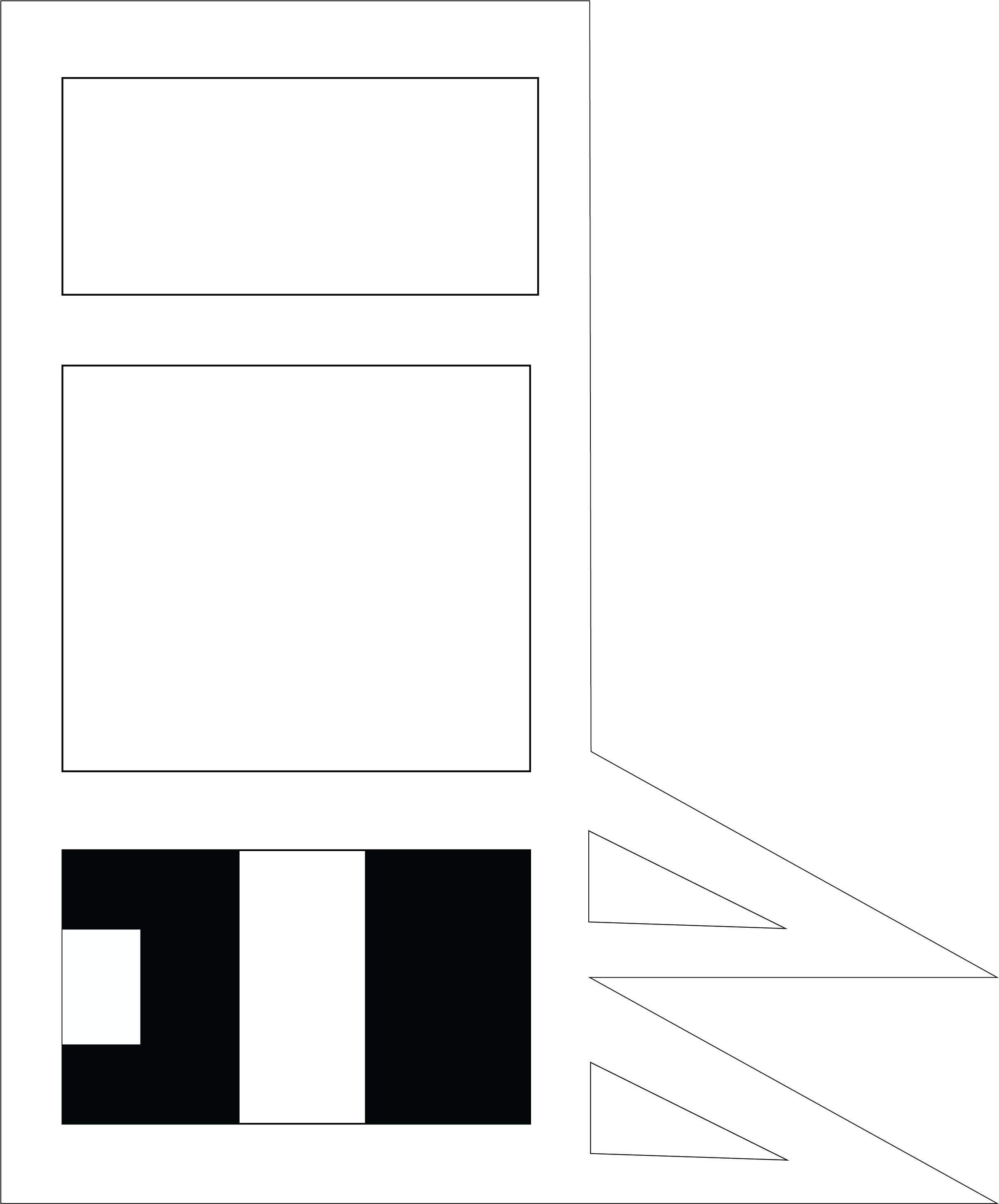 Based on David Nicolle "Armies of the Muslim Conquest" illustrations by Angus McBride. And Martin Hinds "The Banners and Battle Cries of the Arabs at Siffin" Al-Abhath XXIV